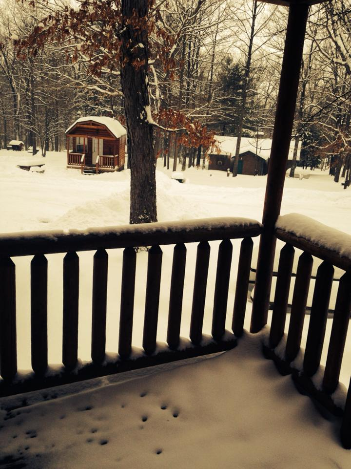 The view from inside a rental cabin at Roaring Run Resort in Champion, Pennsylvania, after snow fall.